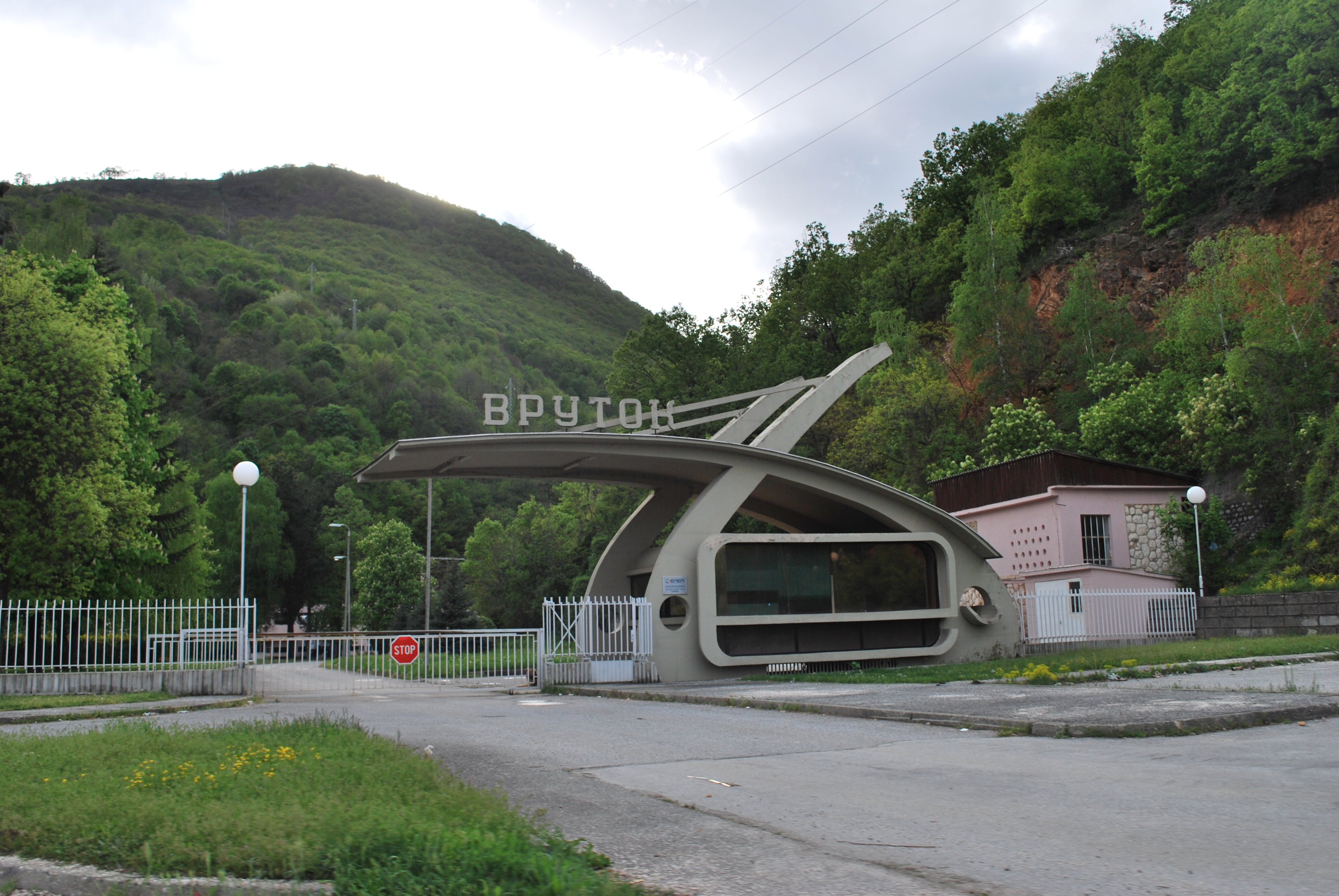 Vrutok, Macedonia